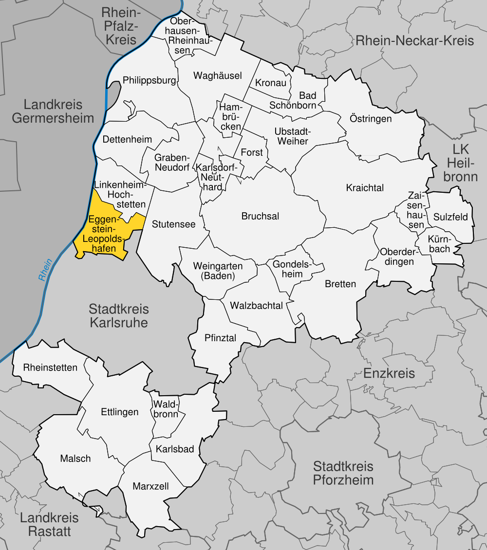 position of Eggenstein-Leopoldshafen within distict of Karlsruhe, Baden-Württemberg, Germany